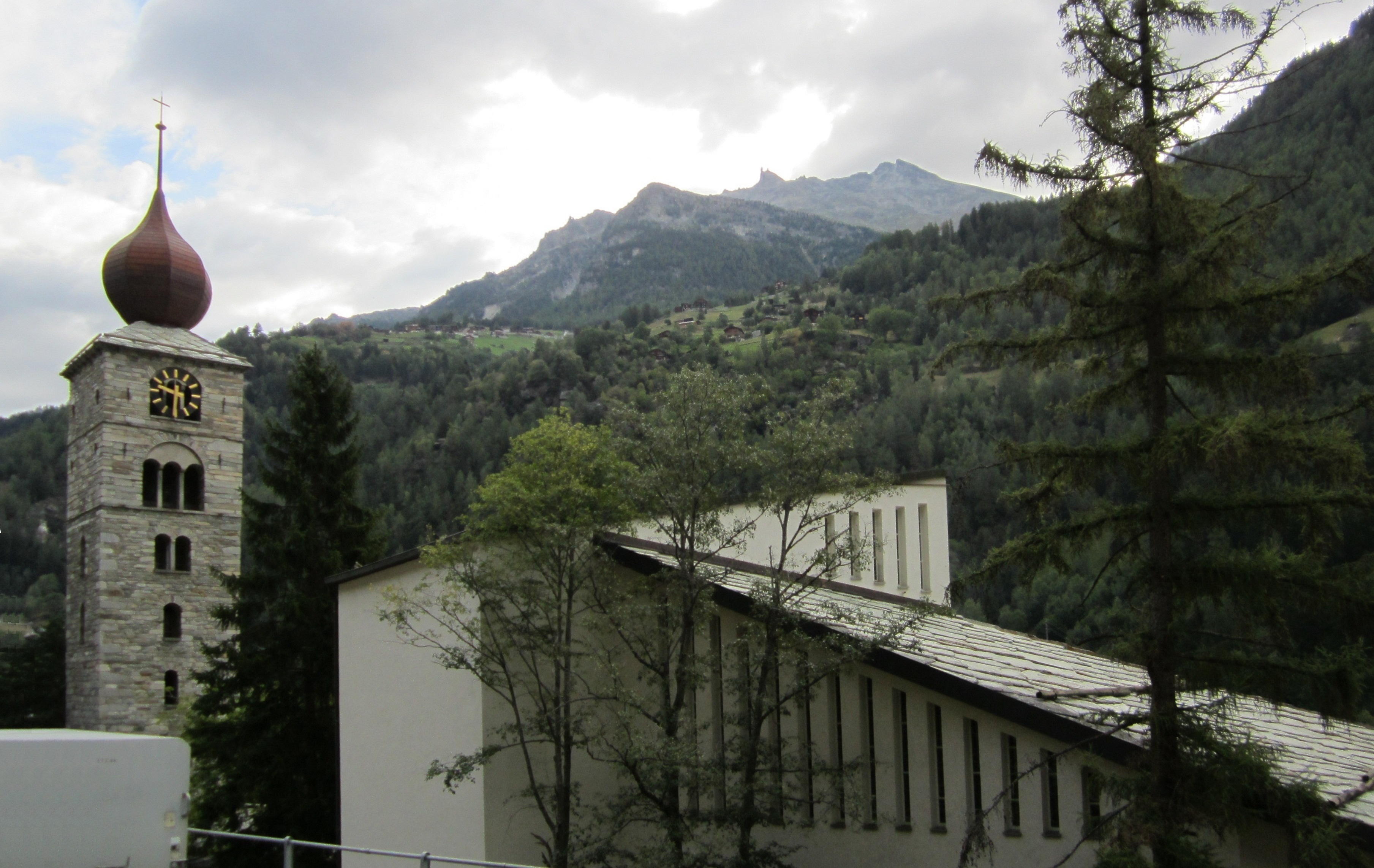 St. Niklaus, Valais, Switzerland